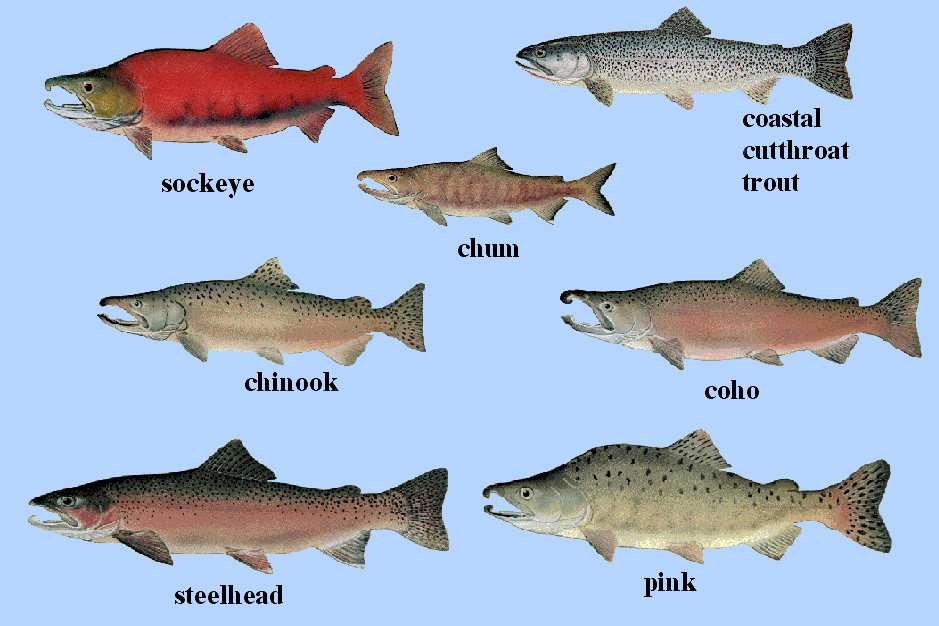 Illustration of various salmon